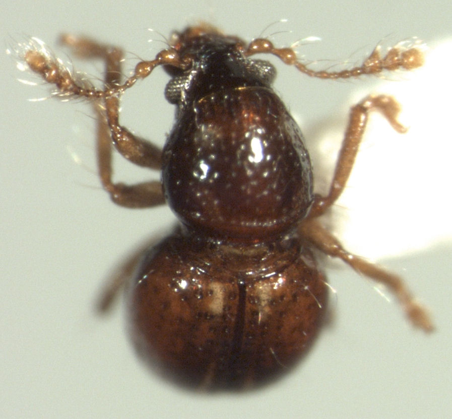 adult Dysnocryptus sp.